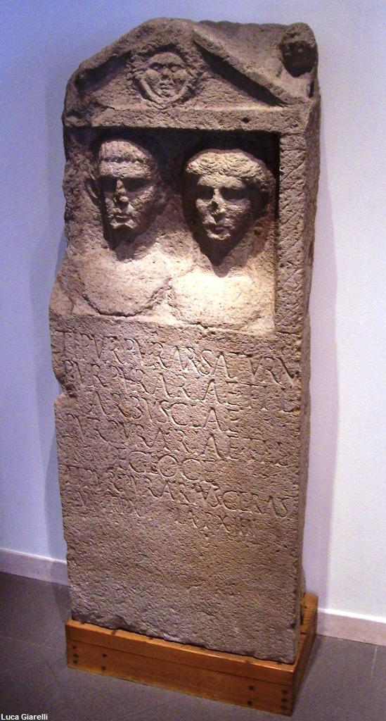 Burial sculpture from Ossimo, Archeological museum of Valle Camonica, Cividate Camuno Ins It. 10-05, 675